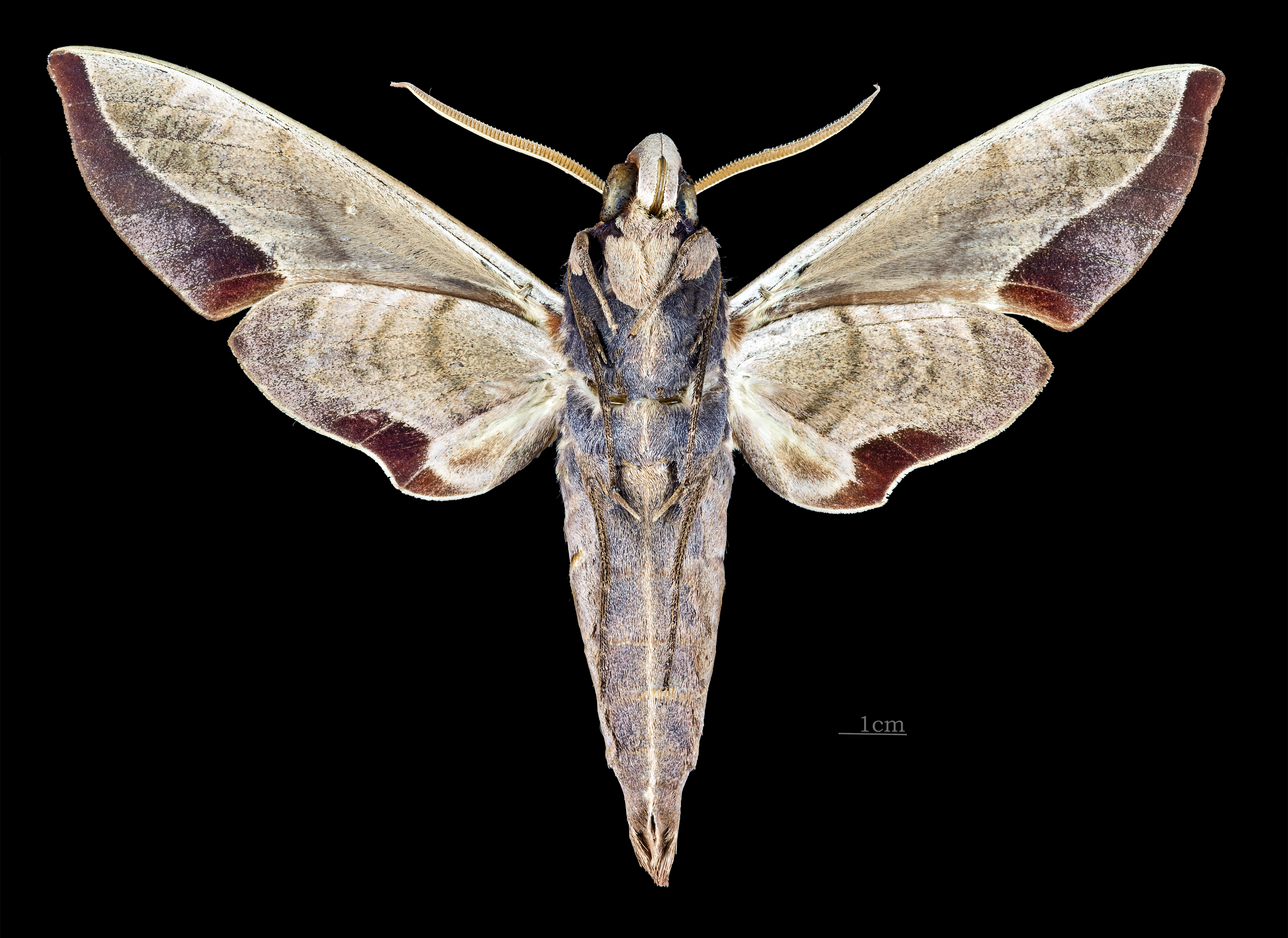 Daphnis protrudens - △ Ventral side Collection of the Mathematician Laurent Schwartz